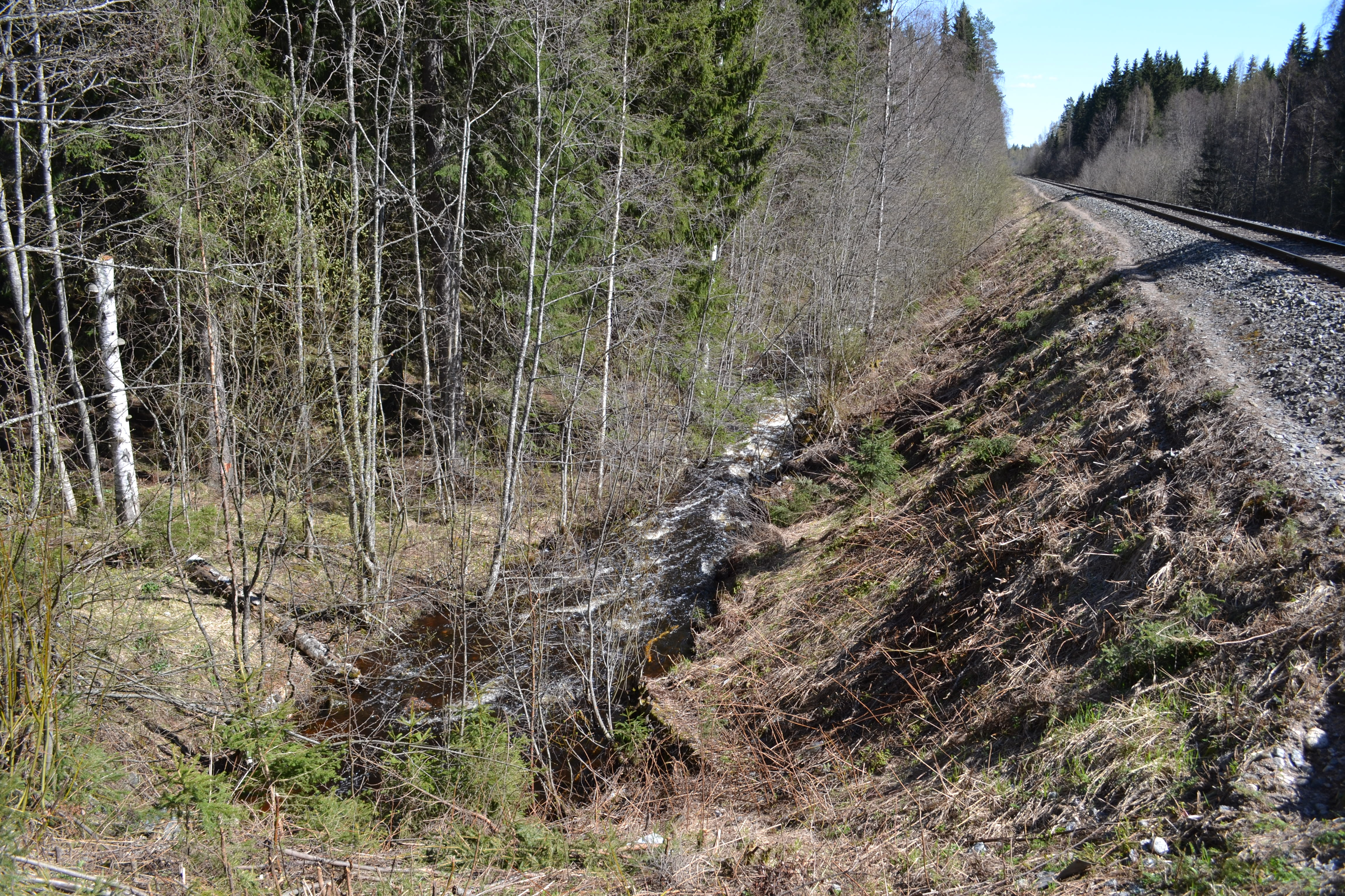 Creek Köyhänoja which carries water from lake Köhniönjärvi to lake Jyväsjärvi in the district of Kypärämäki in Jyväskylä